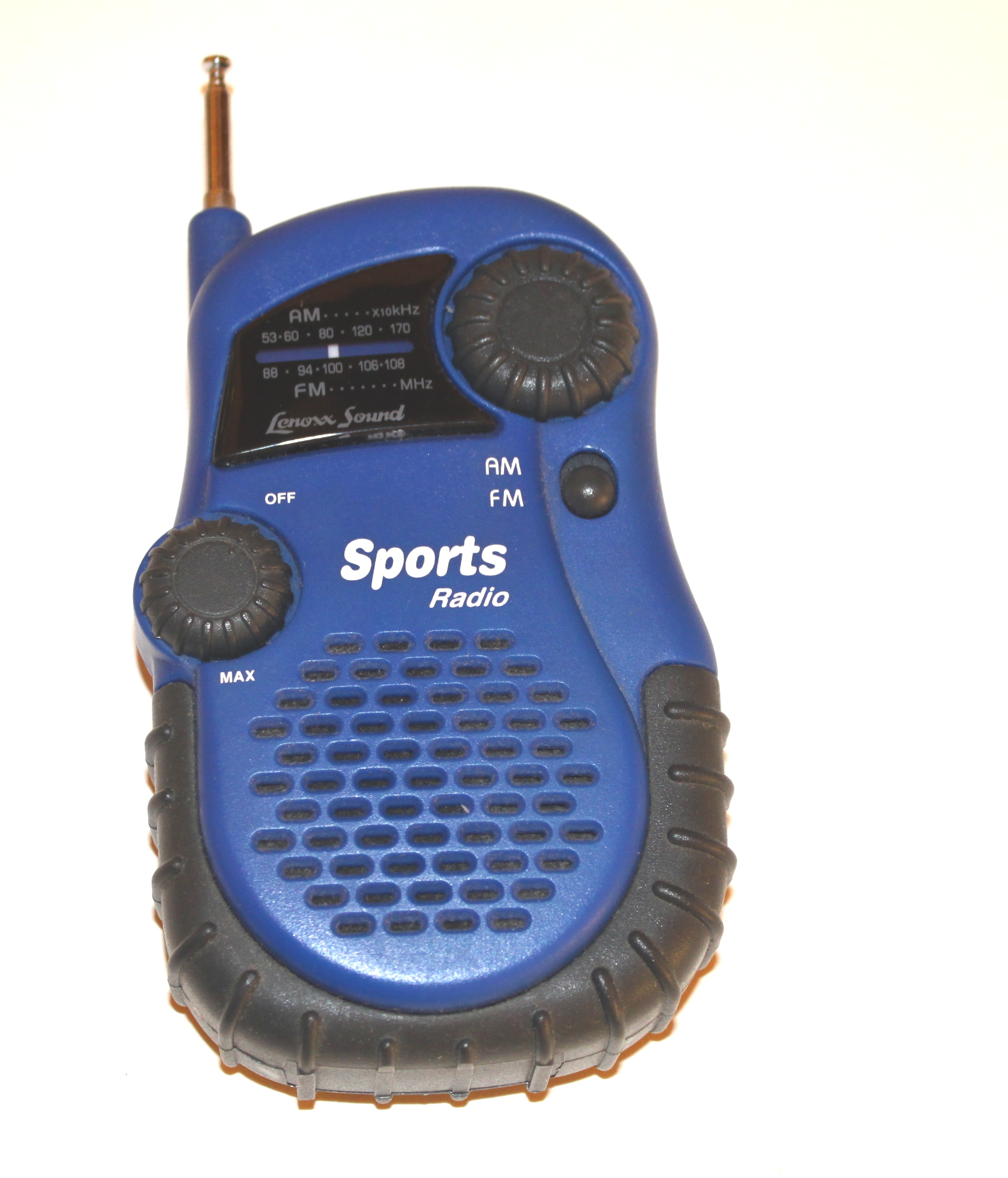 Portable AM/FM radio manufactured by Lenoxx Electronics Corporation. Model PR-35M.